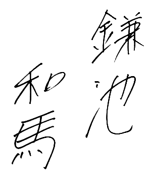 The signature of japanese light novel and manga writer Kamachi Kazuma.